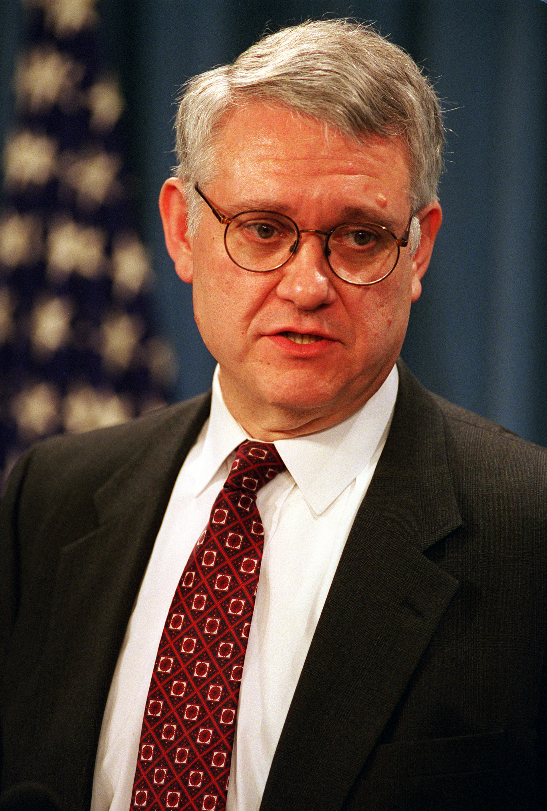 Deputy Secretary of Defense John J. Hamre briefs reporters about the effects of the Y2K rollover in the Defense Department at a noon Pentagon press conference on Jan. 1, 2000.